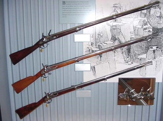 Case 61 at the Springfield Armory Museum comprising: U.S. Musket Model 1816 Type III Springfield Armory Flintlock .69 (SPAR4654) U.S. Musket Model 1842 Percussion .69 (SPAR1189) U.S. Rifle-Musket Model 1855 Type II Percussion .58 (SPAR4428) Lock for Model 1795 Type III Flintlock Musket (SPAR4999)